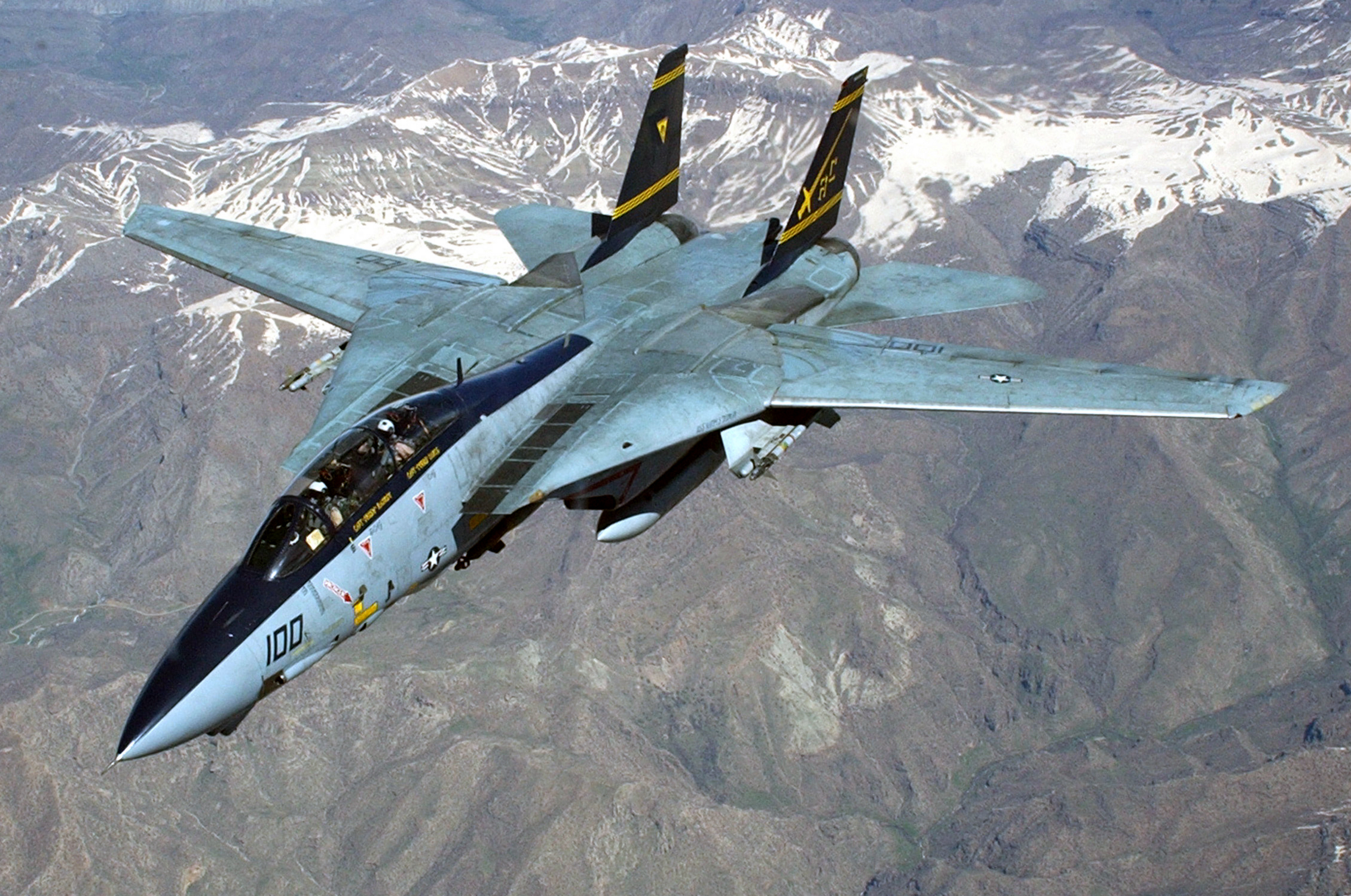 Northern Iraq (Apr. 11, 2003) – An F-14 Tomcat embarked aboard USS Harry S. Truman (CVN 75) flies a combat mission in direct support of Operation Iraqi Freedom. The F-14 Tomcat is a supersonic, twin-engine, variable sweep wing fighter whose primary missions are air superiority, fleet air defense, and precision strike against ground targets. Truman and her embarked Carrier Air Wing Three (CVW-3) are conducting combat missions in support of Operation Iraqi Freedom. Operation Iraqi Freedom is the multi-national coalition effort to liberate the Iraqi people, eliminate Iraq's weapons of mass destruction, and end the regime of Saddam Hussein. U.S. Navy photo by Paul Farley. (RELEASED)